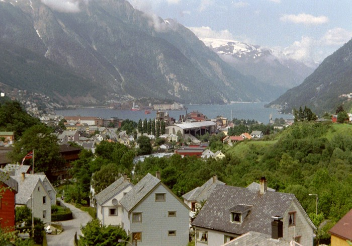 The picture shows an overwiev of the centre of Odda municipality. Sørfjorden in the background.